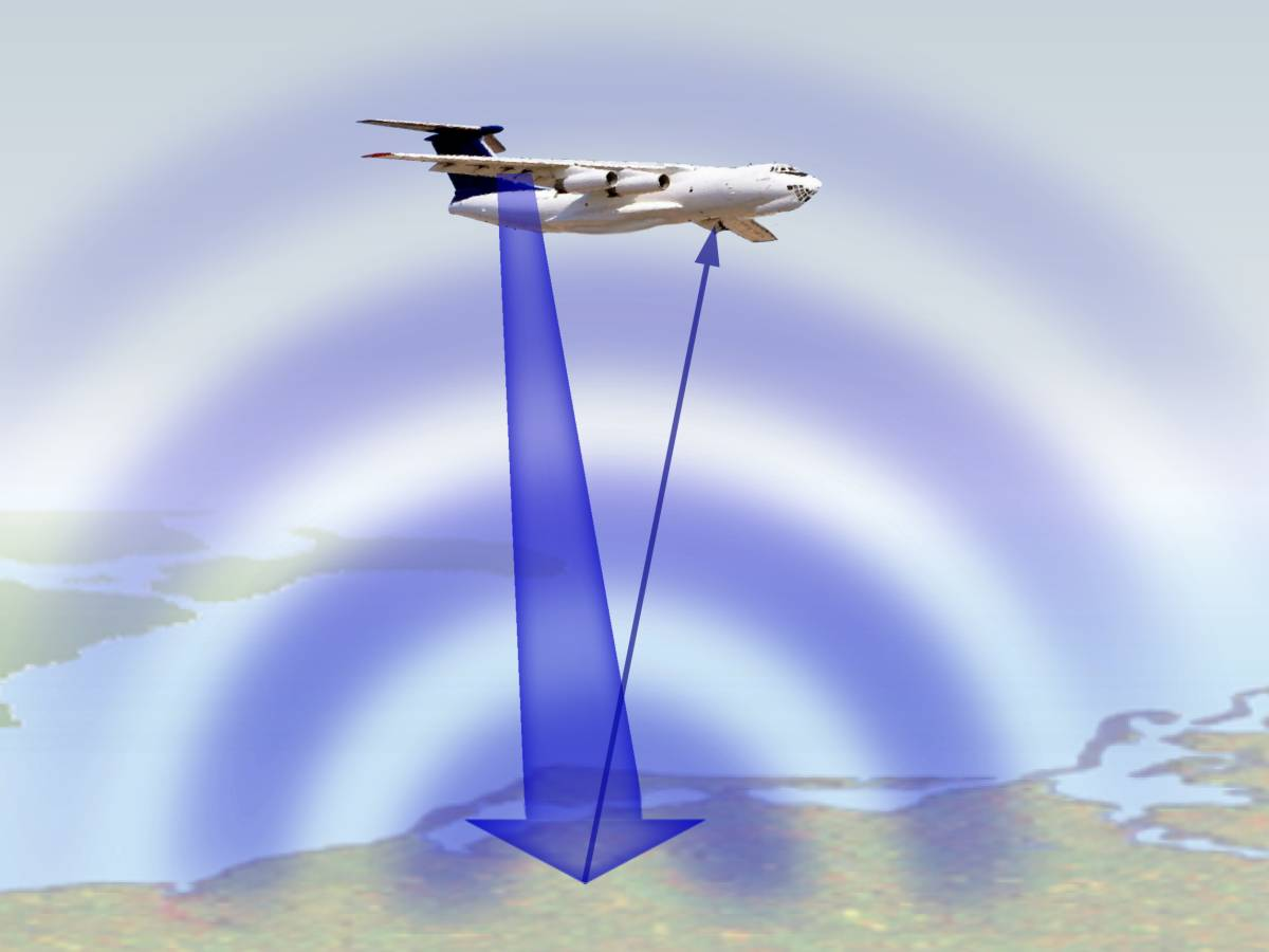 Principle of Radar Altimetry